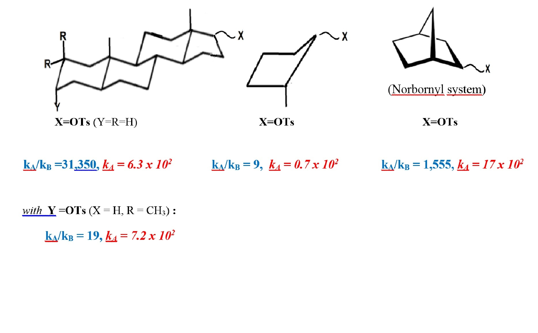 Typical solvolysis kinetics involving nonclassical cations, illustrated with the most reactive compounds. kA/kB: rate constant ratio of epimers (X or Y= OTs); largest rate constant kA [ sec-1]; all measurements in HFIP